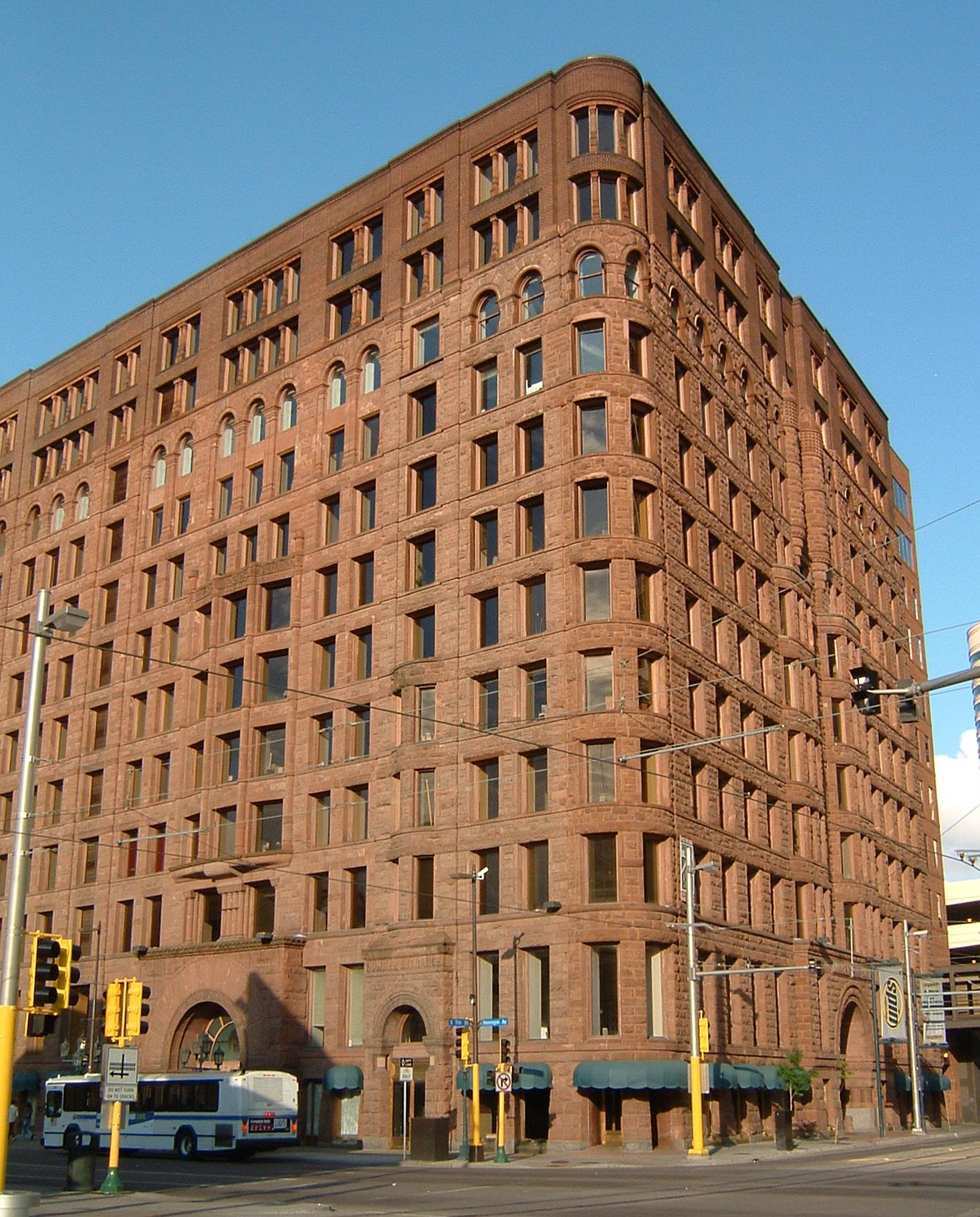 Lumber Exchange Building in Minneapolis, Minnesota, listed on the National Register of Historic Places.